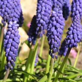 ertrte